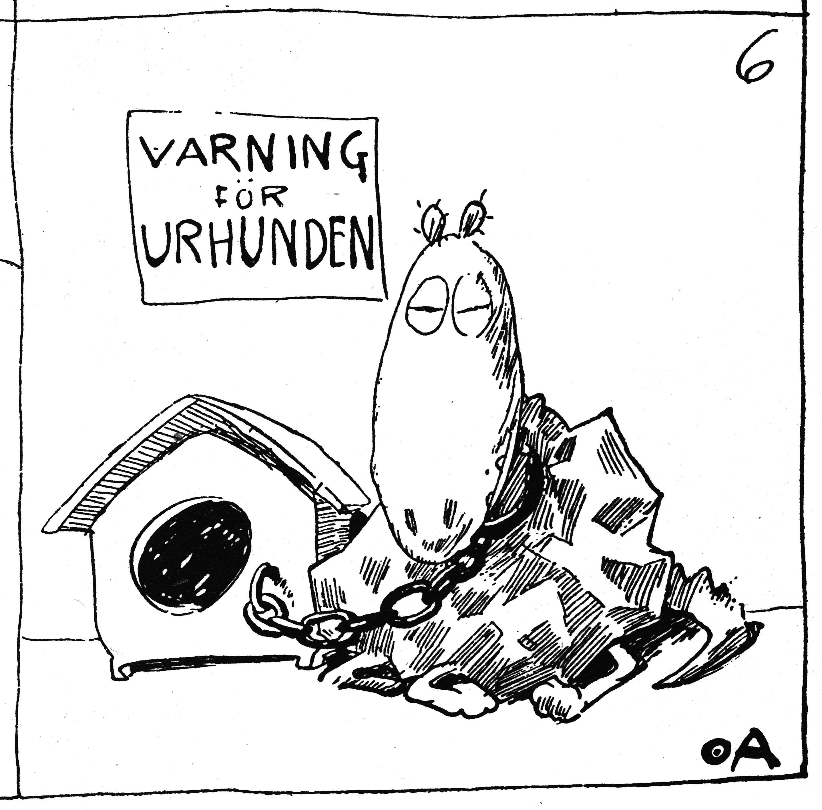 Ending panel in the comic strip Urhunden på sommarnöje by Oskar Andersson (OA).